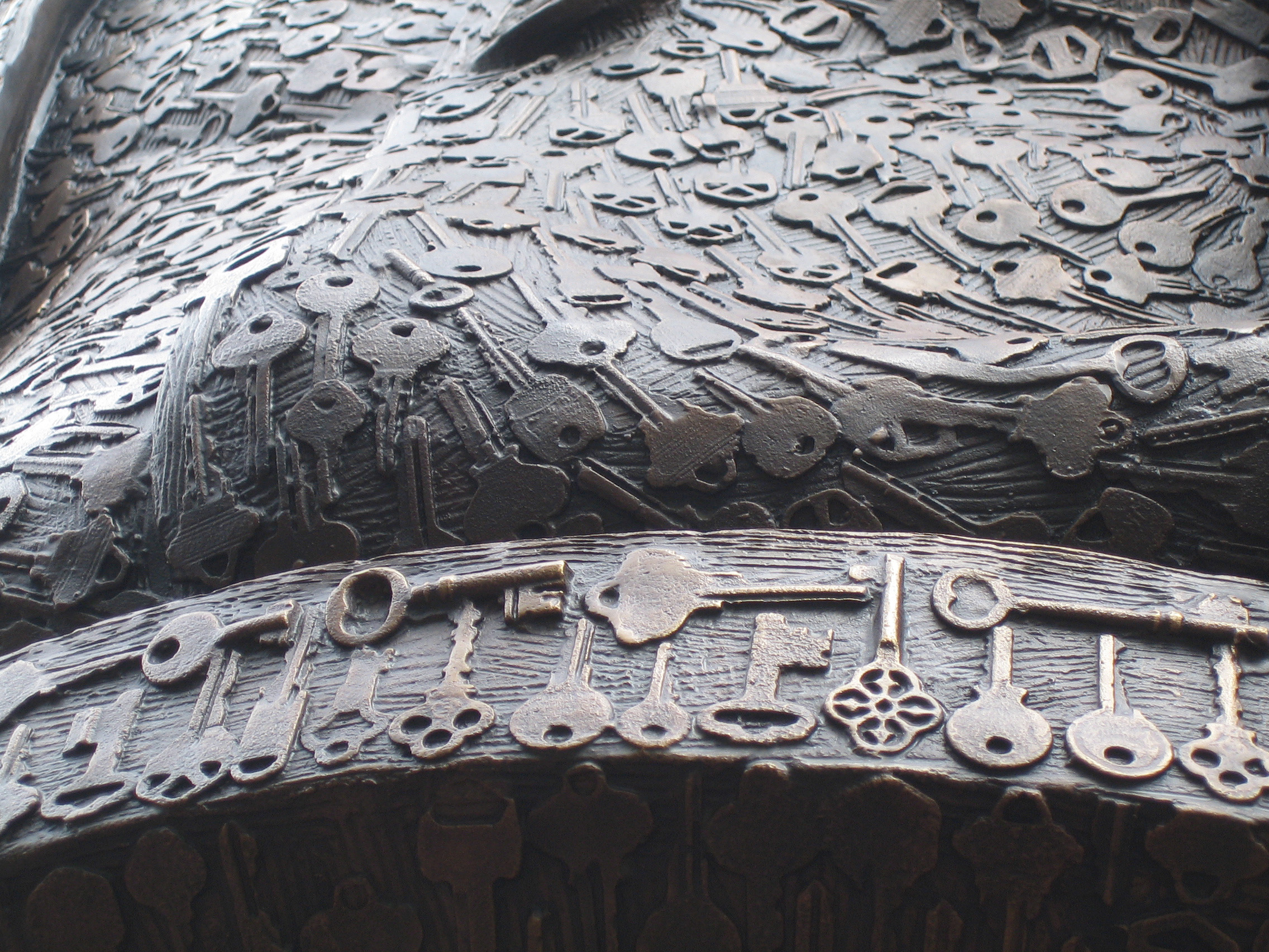 Closeup of Keys To Community, a nine-foot bronze sculpture of Benjamin Franklin by James Peniston, installed in 2007 in Girard Fountain Park in Philadelphia, Pennsylvania. Shows the bronze casts of keys donated by local schoolchildren.